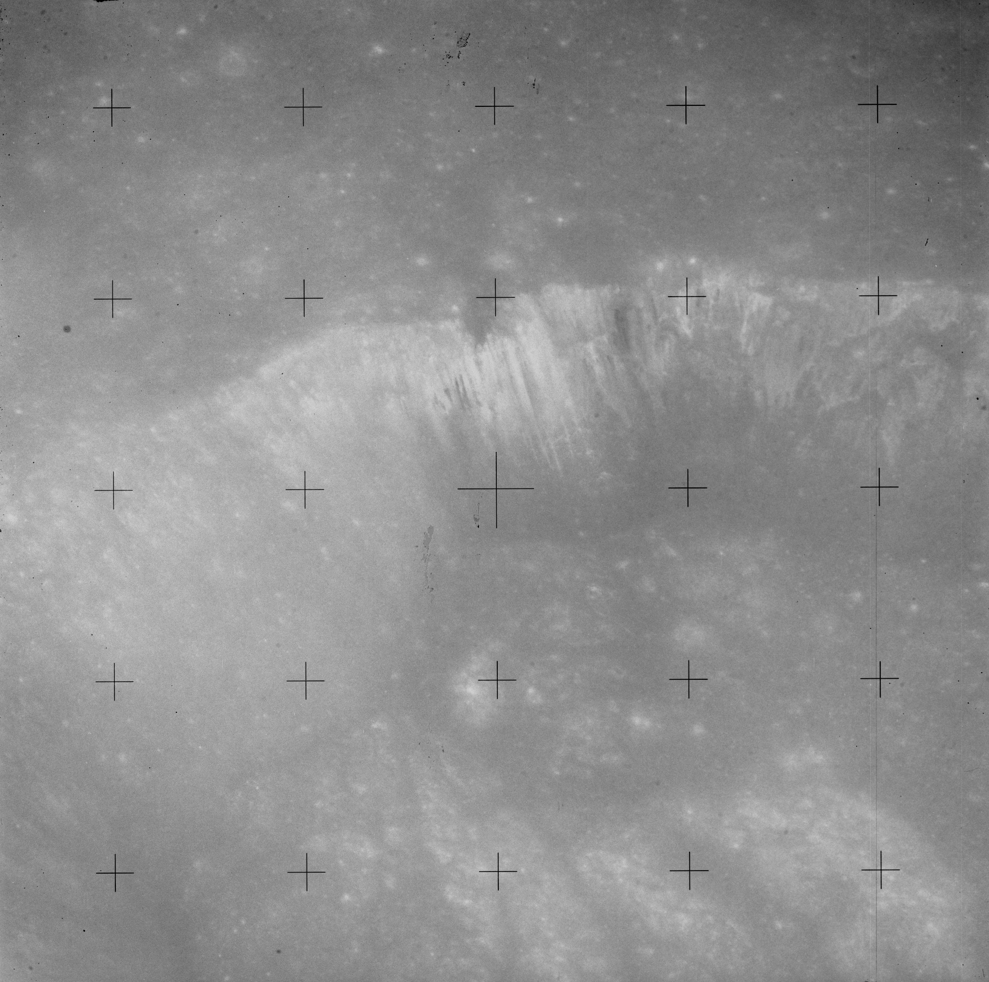 Oblique view of part of interior and northwest wall of Menelaus crater, on the moon. The brightness and contrast have been altered from the original.